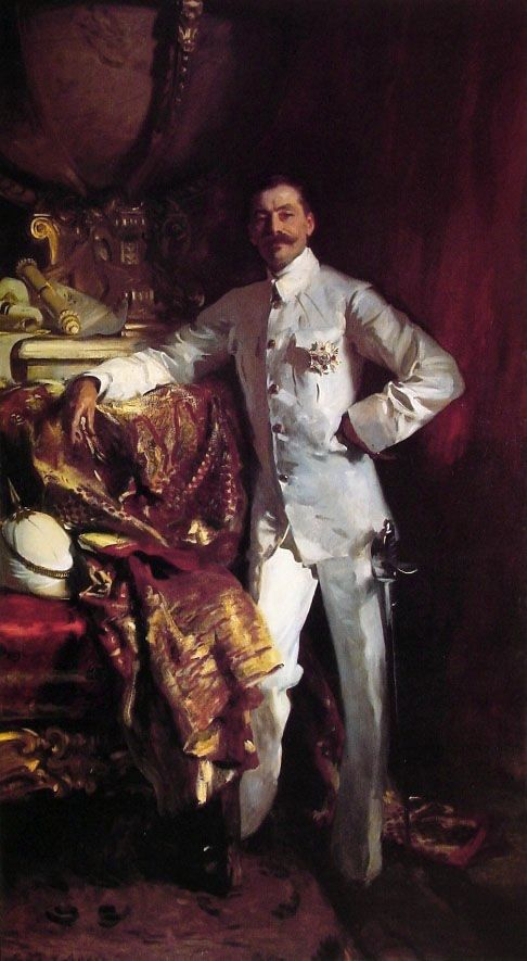 Sir Frank Swettenham, 1904, by John Singer Sargent, Oil on canvas, 258 x 142.5 cm (101.57 x 56.10"), National Museum in Singapore